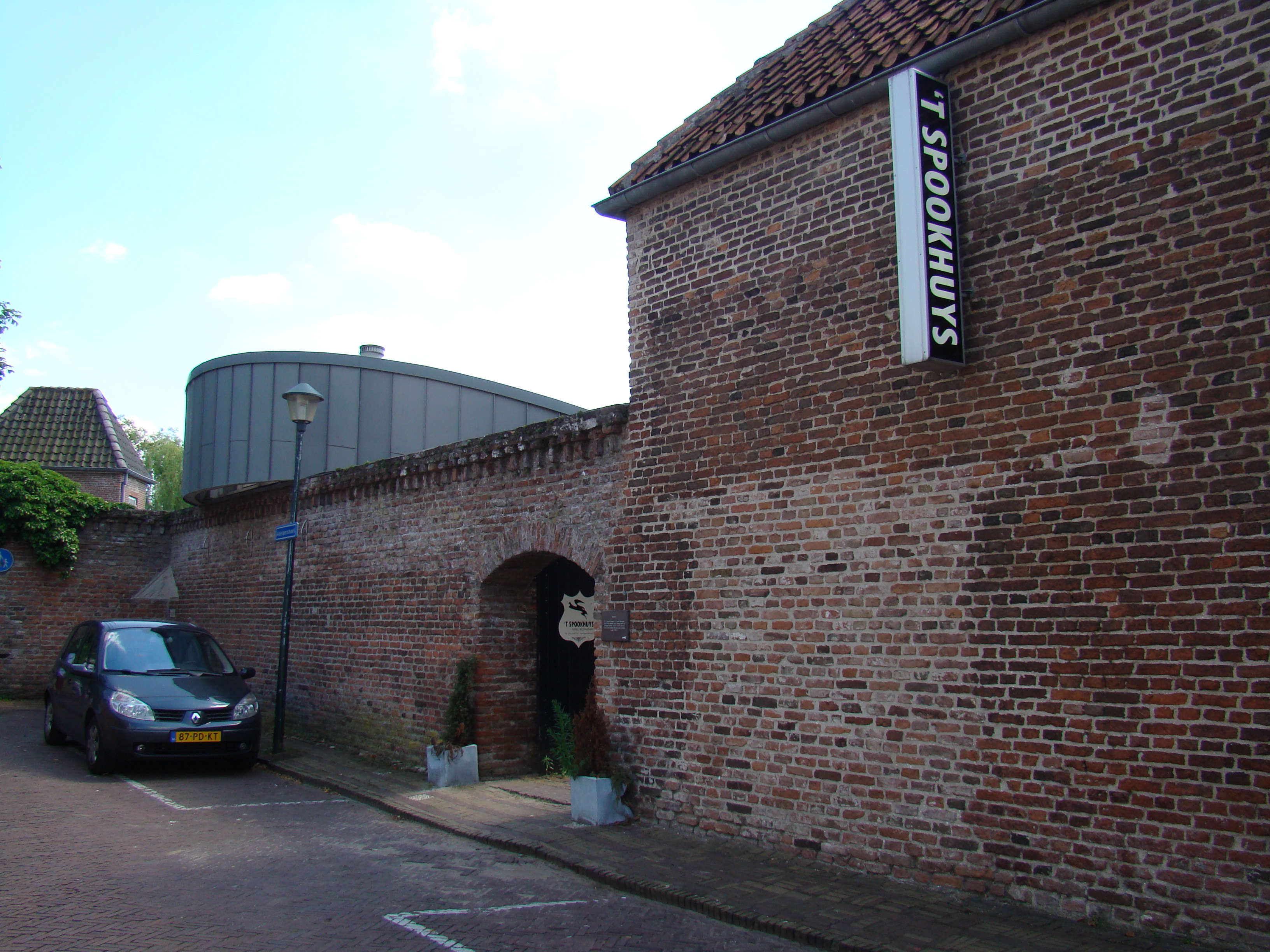 Impressions of Hattem, Netherlands Spookhuis Hattem